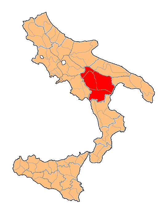 Department of Basilicata, of Kingdom of the two Sicilies